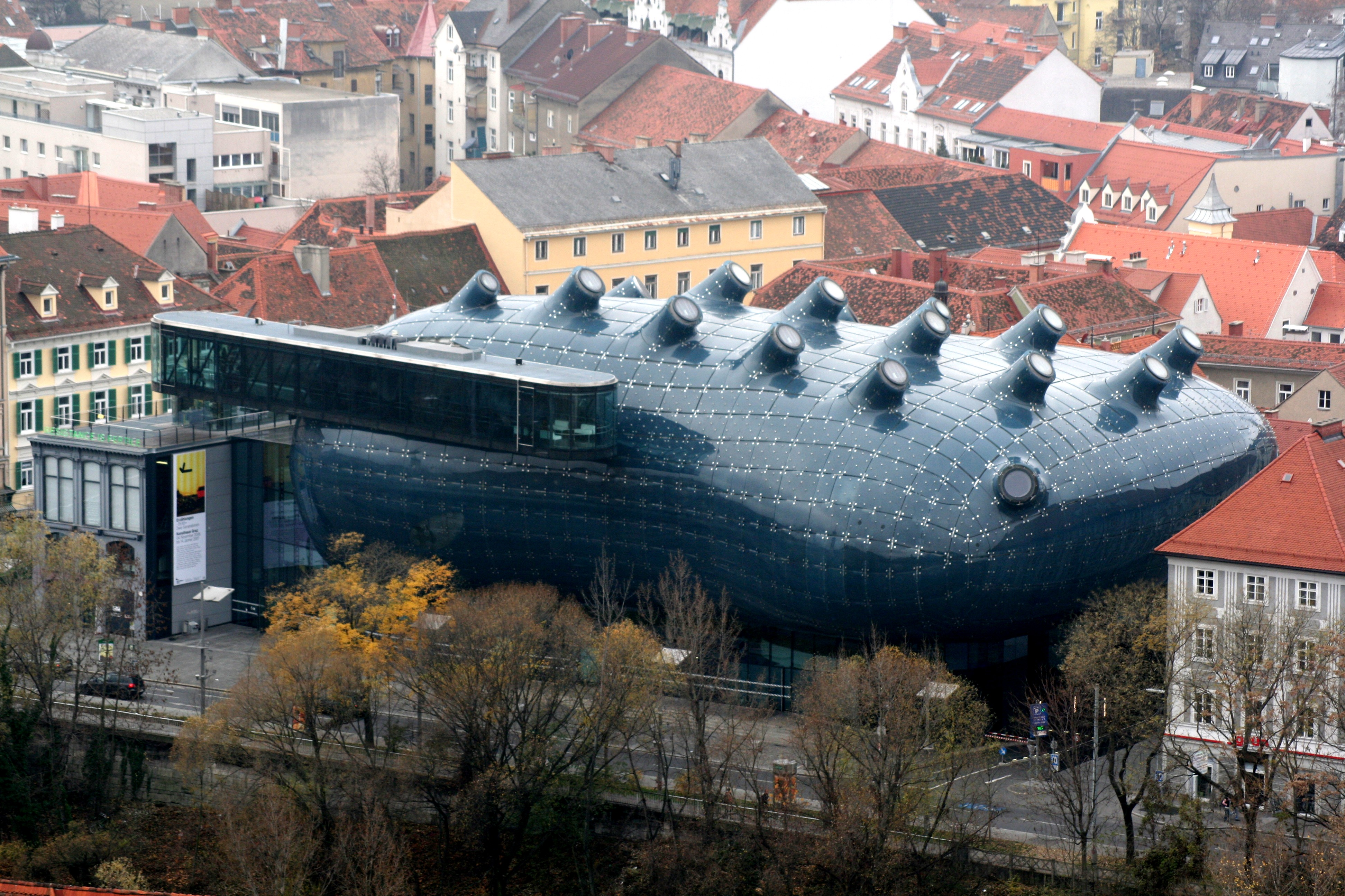 Kunsthaus in Graz, Austria; seen from Schlossberg